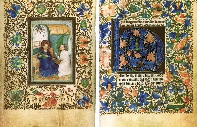 Annunciation, Prayer book of Stephan Lochner